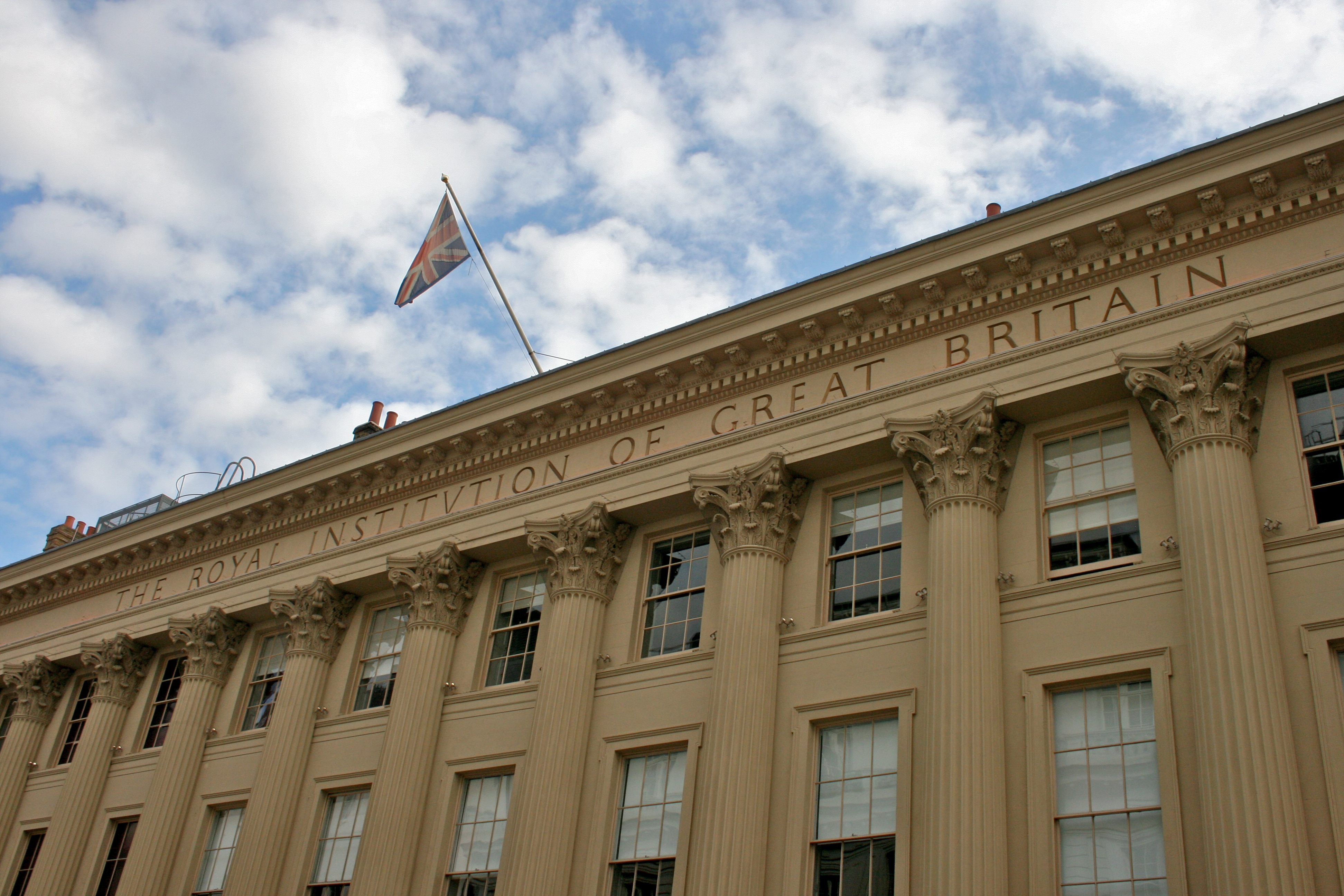 The Royal Institution, London, UK.